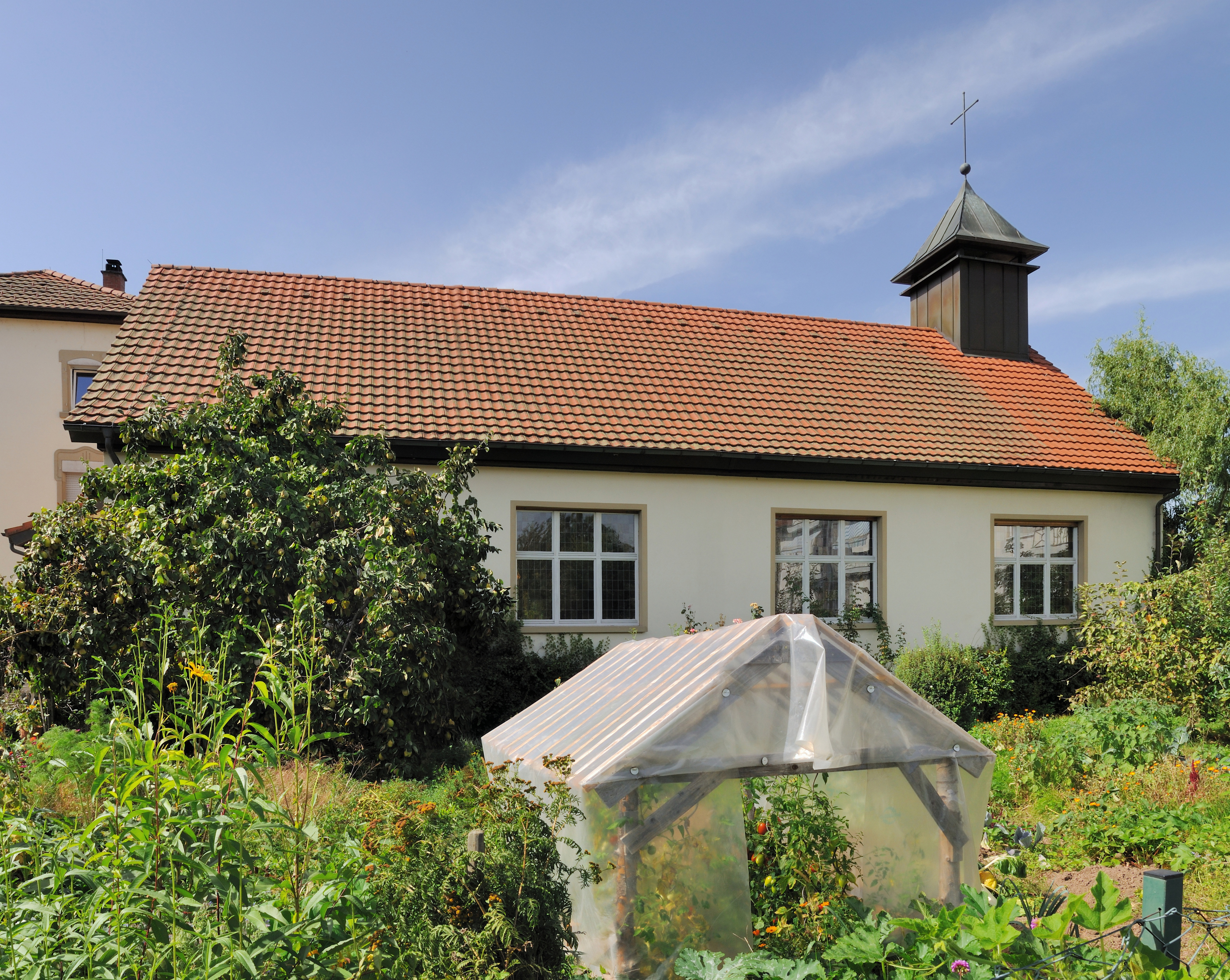 Schopfheim-Fahrnau: Catholic Church